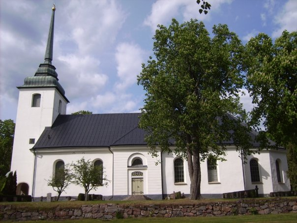 The church in Kvillinge.